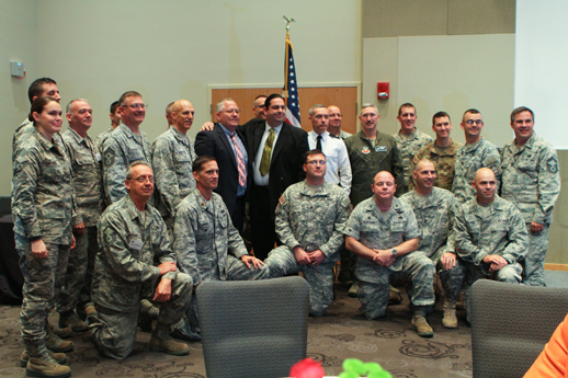 Walter O'Brien and various colonels and retired colonels at NIDIA, the Northeast Indiana Defense Industry megaconference